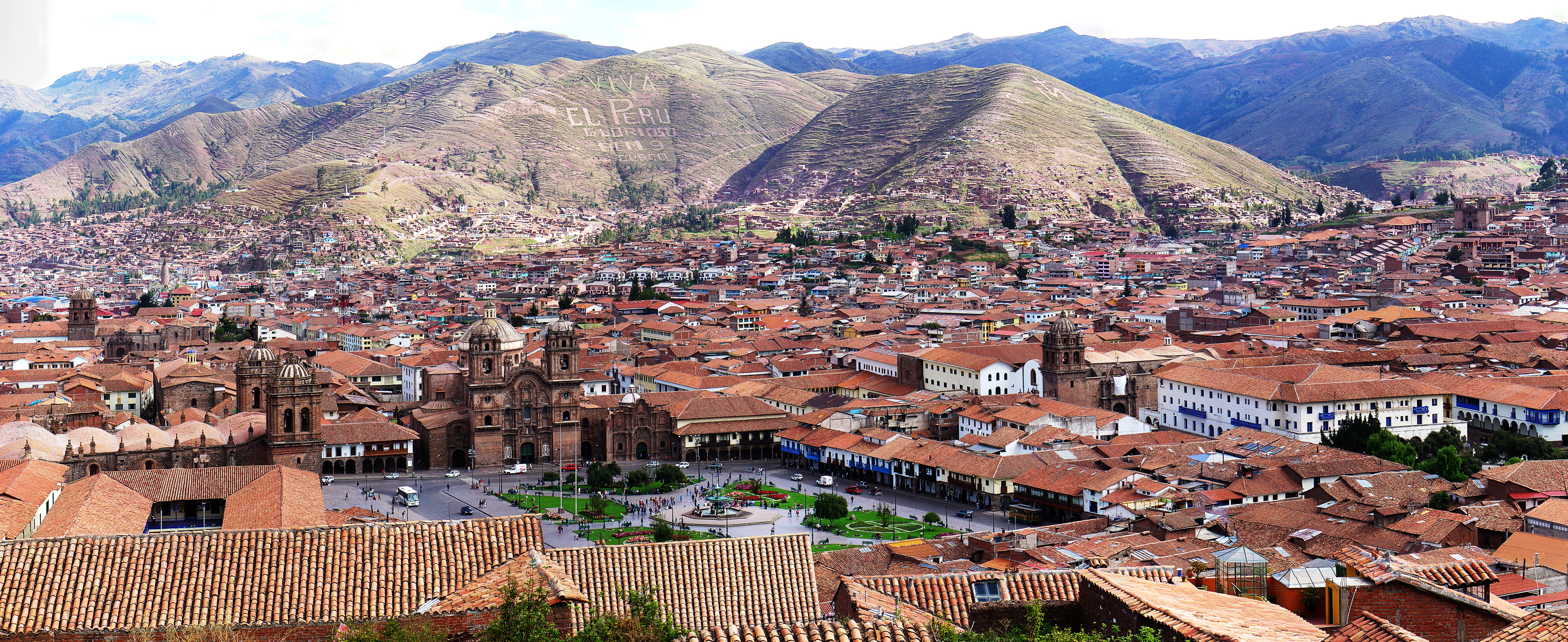 Panorama of Cusco, Peru